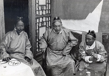 Rai Bahadur Norbhu Dhondhup, Trimon and Tsarong Dsaza (accorging to: Clare Harris & Tsering Shakya (2003) Seeing Lhasa, page 93)